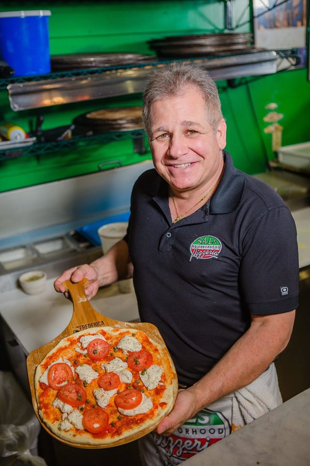 Sal Rocky Cenicola at his World Famous Restaurant Sal's Neighborhood Pizzeria and Ristorante Italiano in 2015.